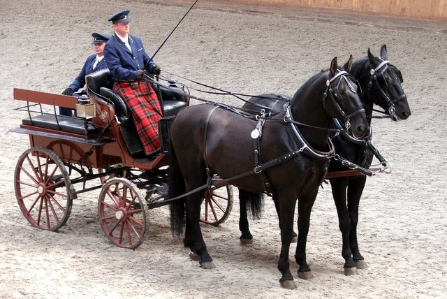 Black Kladrubers (Sacramoso Rosa and Generalissimus Paluba) in harness photo: Hanka Čertík